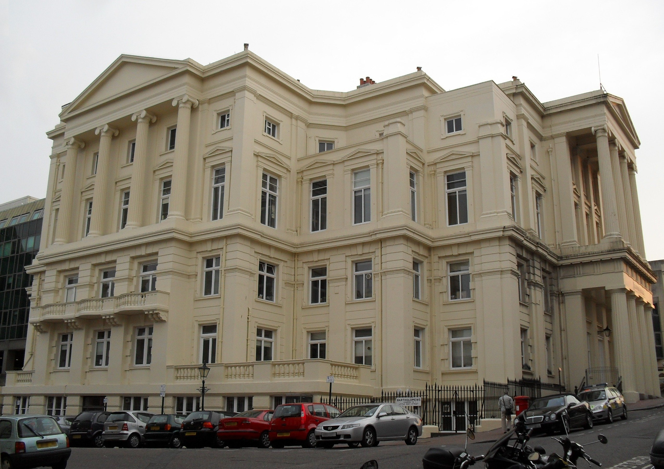 Brighton Town Hall, Bartholomews, City of Brighton and Hove, England. Built in the Classical style in 1830–1832 and extended in 1898–1899. Listed at Grade II by English Heritage (IoE Code 479446)